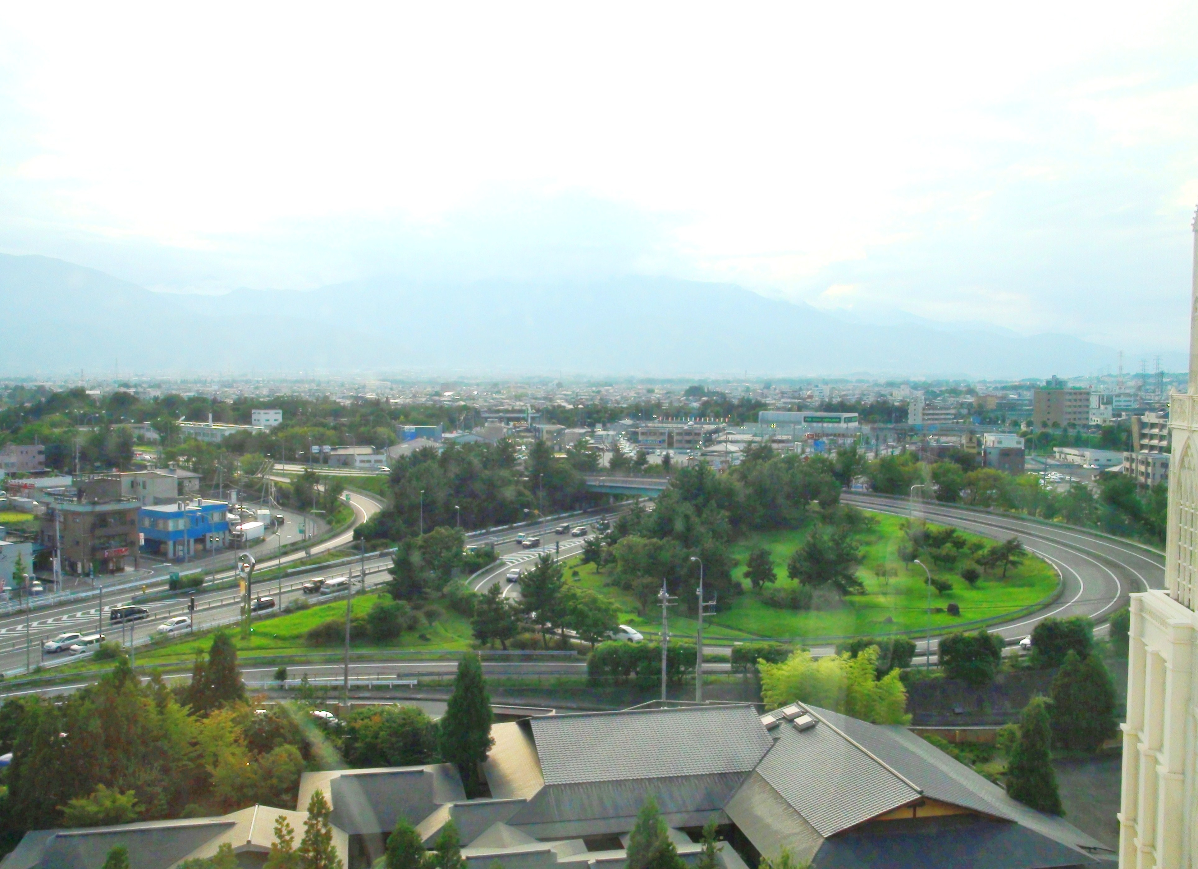 Kofu-Showa Interchange, joint with route 20